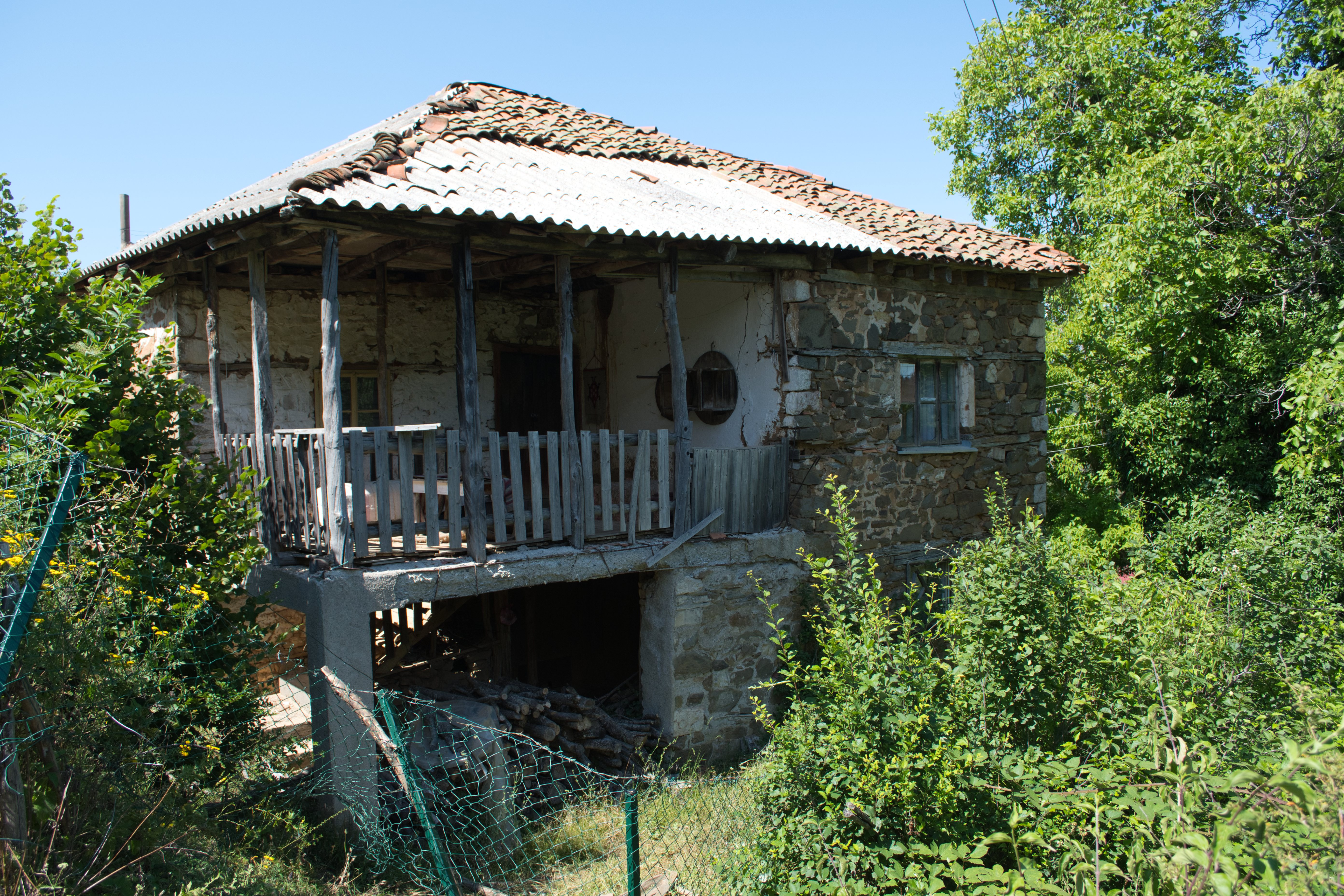 An old house in the village of Drenok